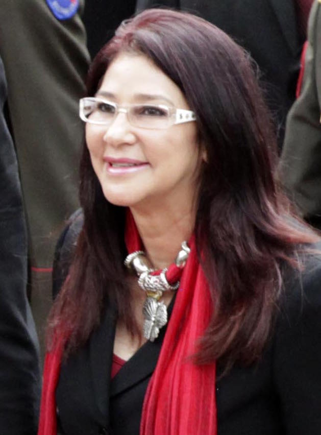 Caracas (Venezuela), 19 Abril del 2013. Posesión de Nicolas Maduro como Presidente de la República Bolivariana de Venezuela. Foto: Xavier Granja Cedeño/Ministerio de Relaciones Exteriores Comercio e Integración